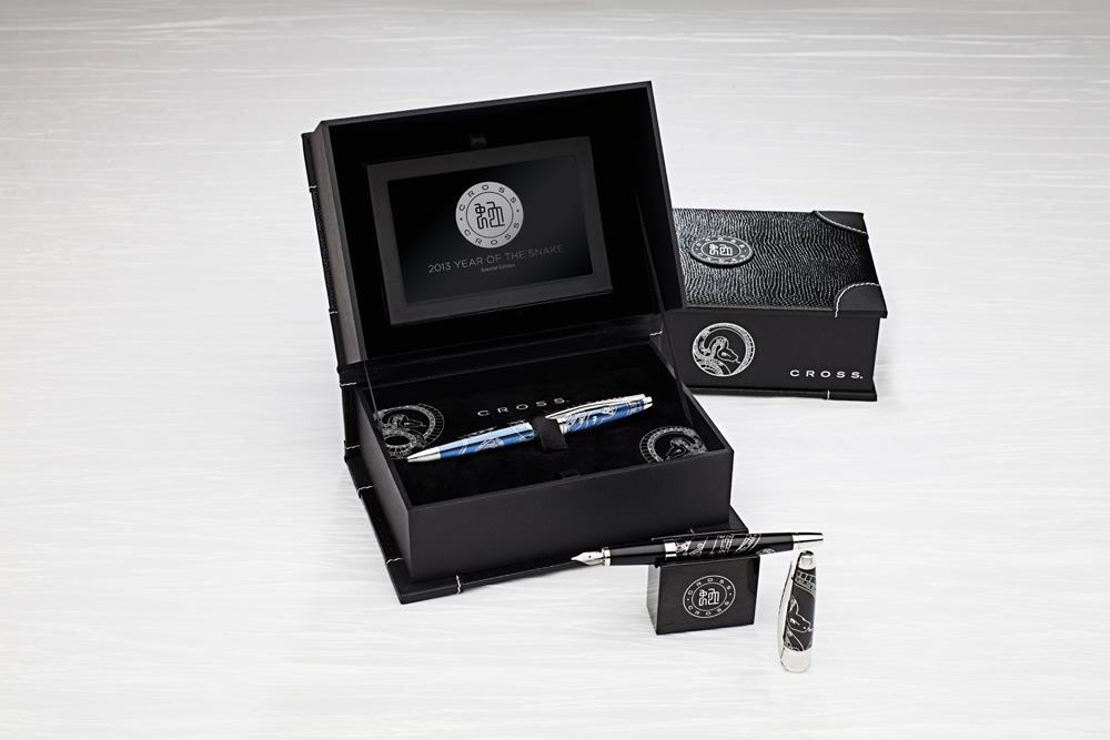 Edition Limitée: Année du Dragon